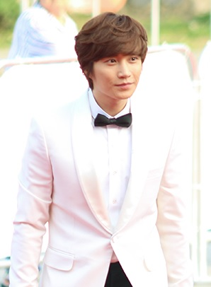 Kim Da-hyun on the red carpet of The Musical Awards, 3 June 2013